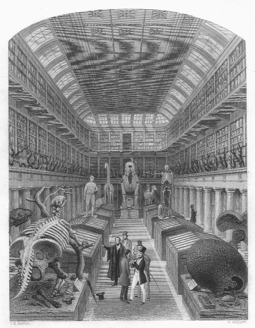 Hunterian Museum, Woodcut engraving